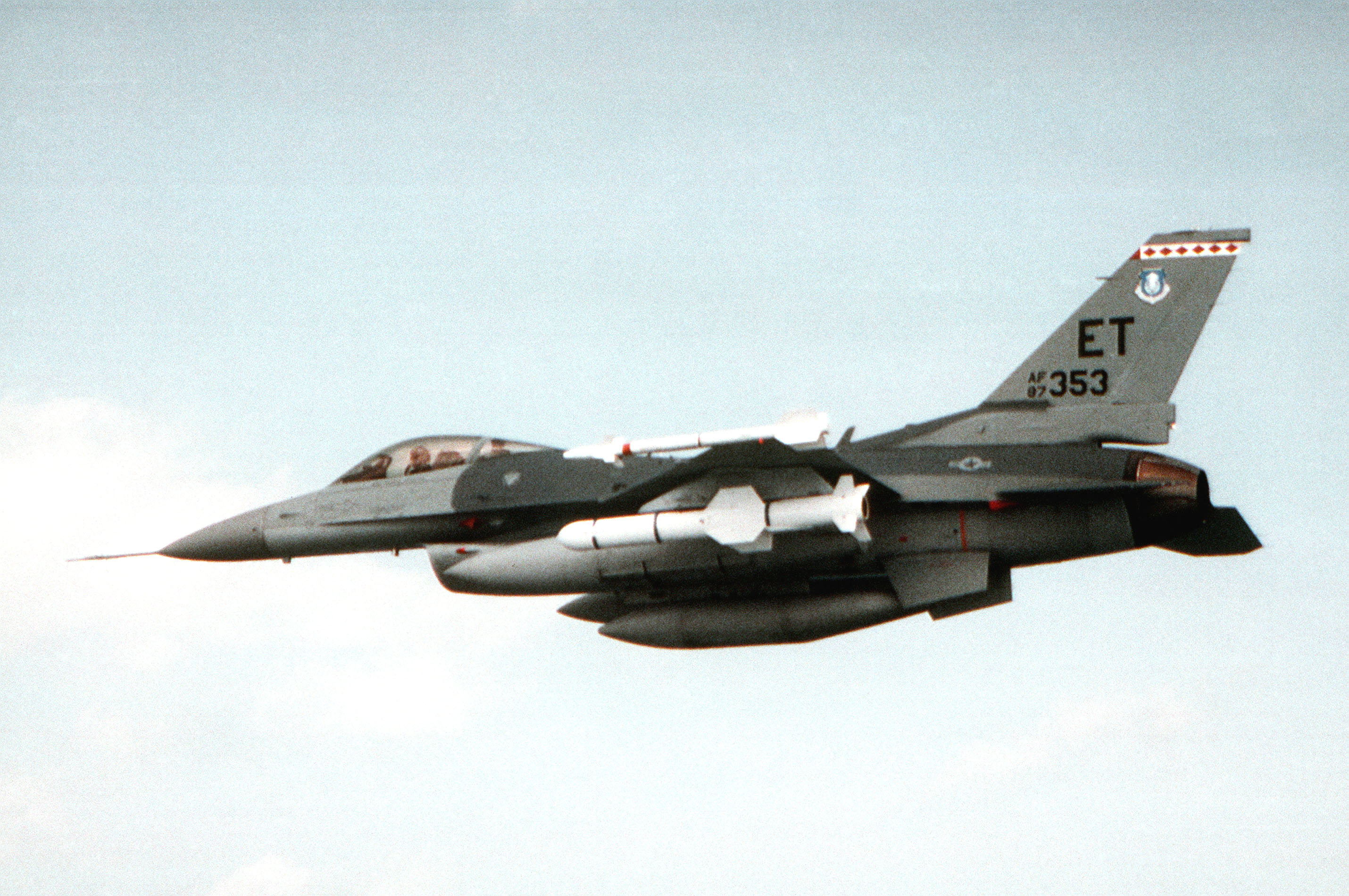 Air to air view of an AGM-84 Harpoon all-weather anti-ship missile on an F-16 Fighting Falcon, tail #353.Location: EGLIN AIR FORCE BASE, FLORIDA (FL) UNITED STATES OF AMERICA (USA)